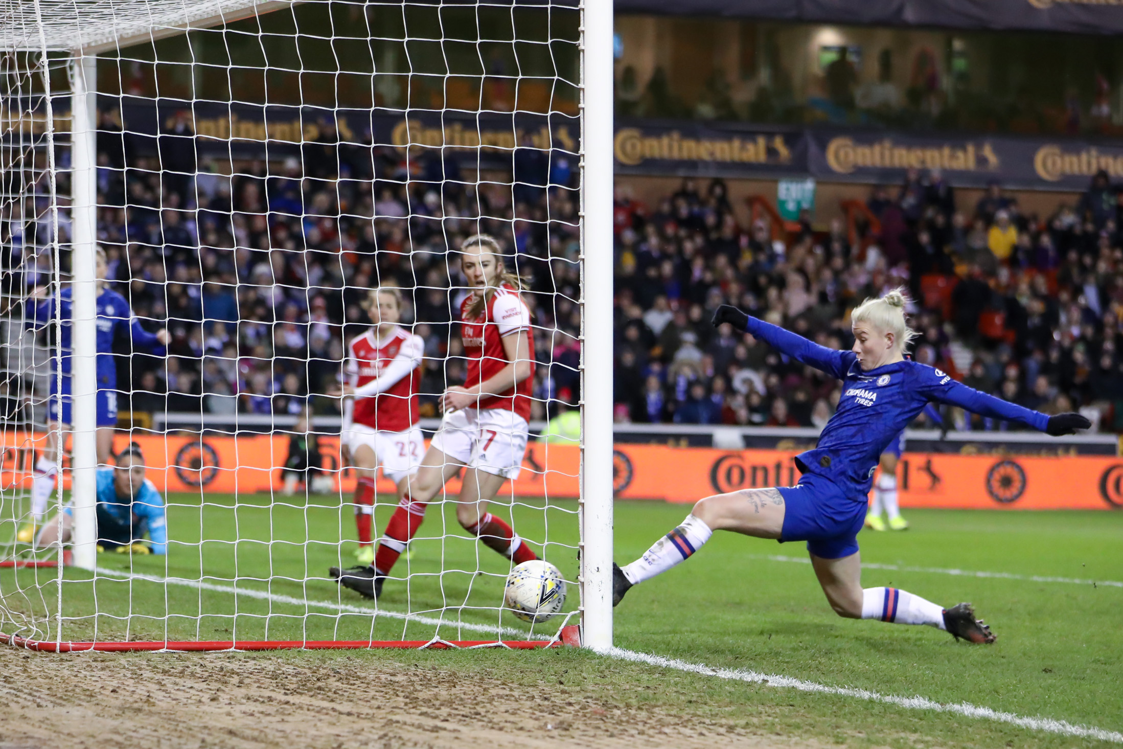 Beth England scoring the winning goal in Chelsea 2–1 win over Arsenal.